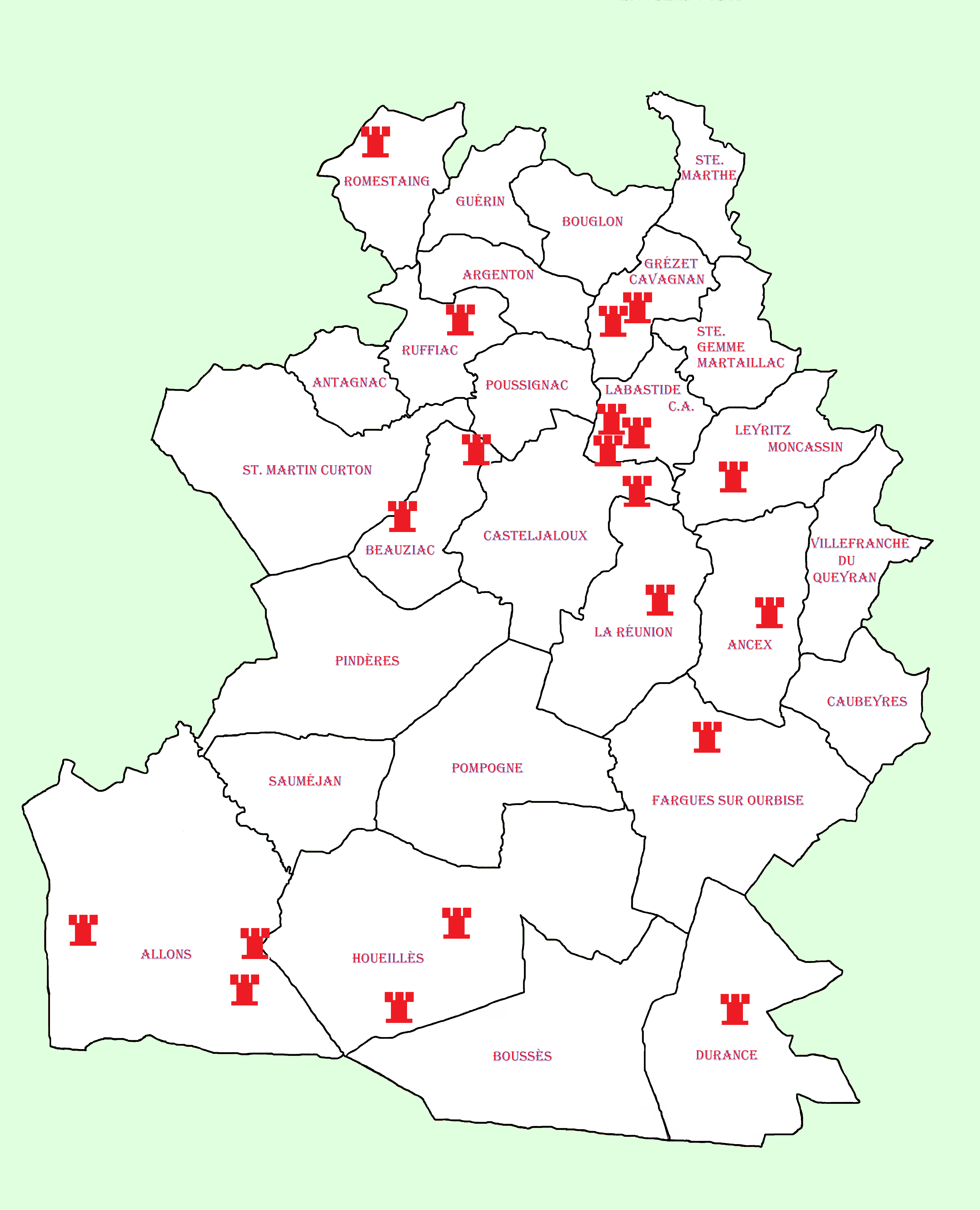 Map of castles